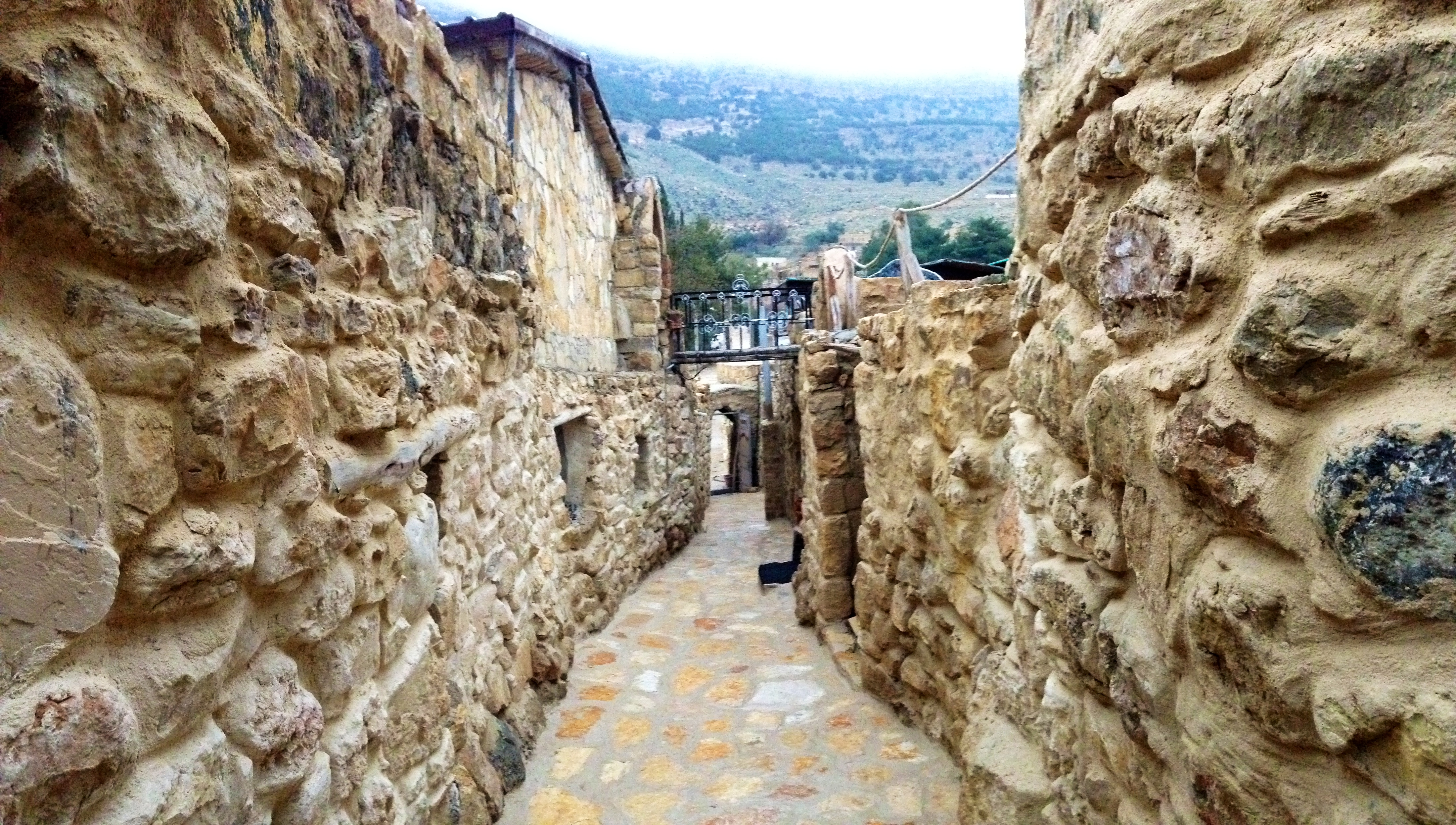 Dana, Jordan